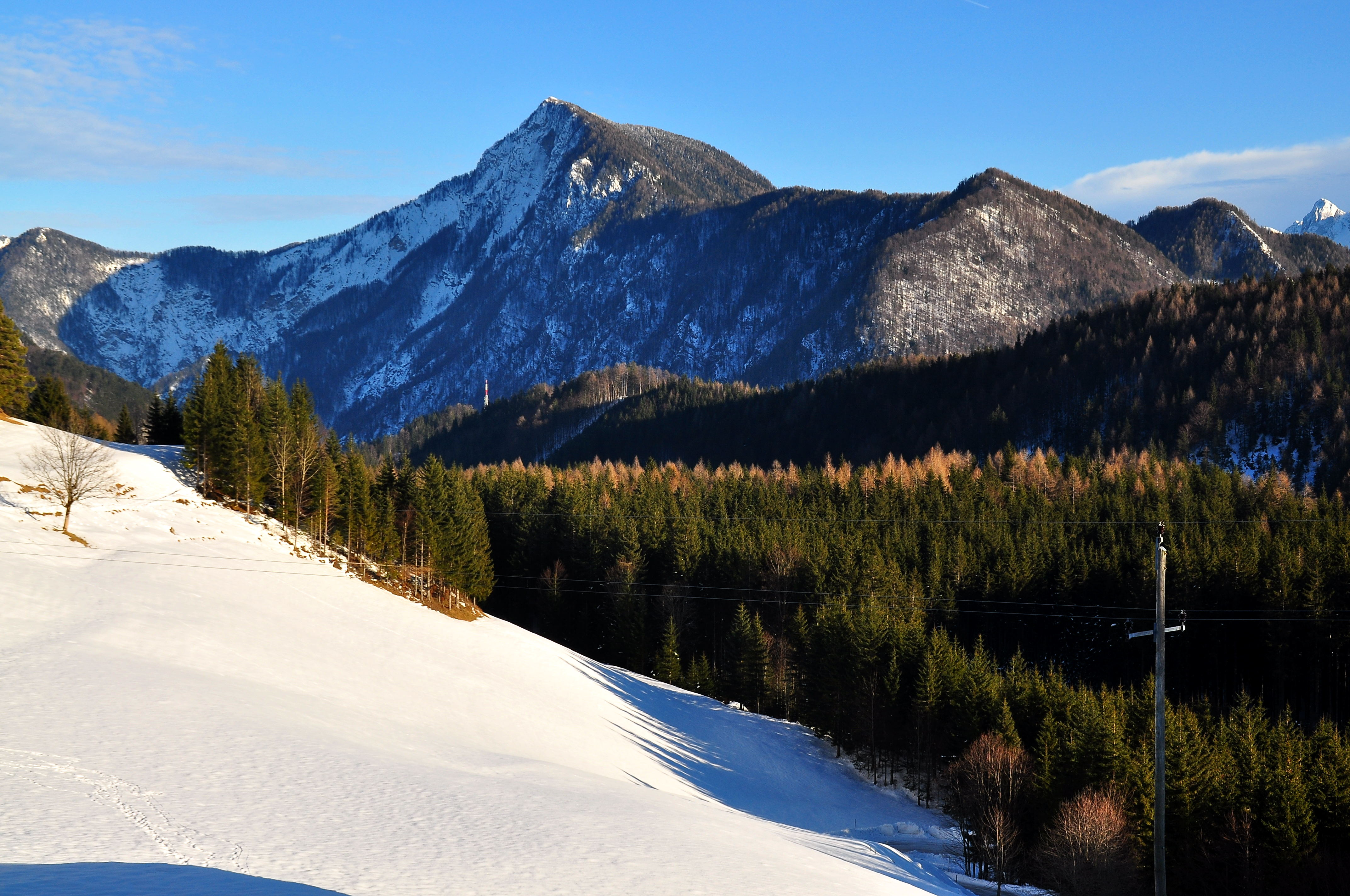 View at the Ferlacher Horn from the mountain hotel “Lausegger” in the Bodental, community Ferlach, Carinthia, Austria